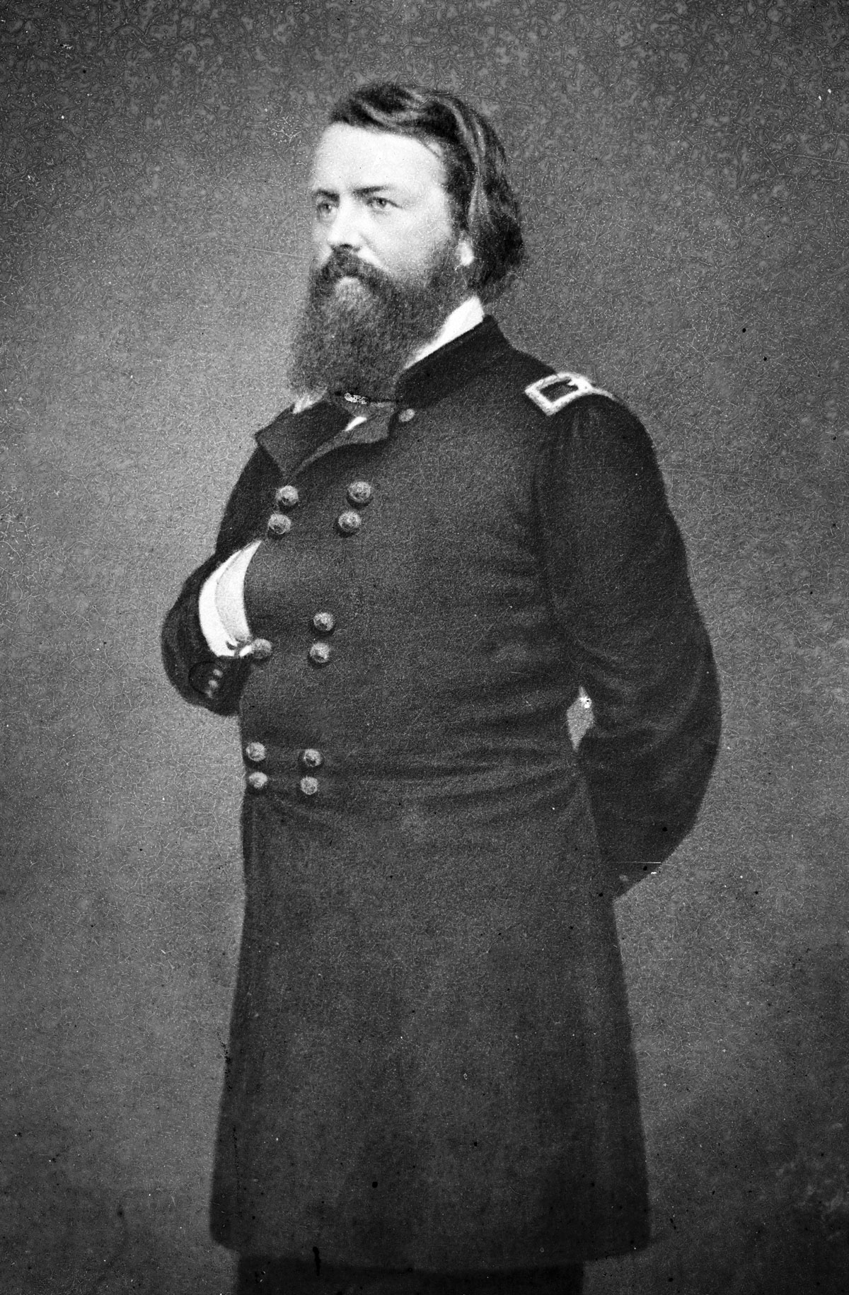 General John Pope (1822-1892) was a Union general during the Civil War, commanding the Third Military District, which included Alabama, Georgia, and Florida. Library of Congress Prints and Photographs Division